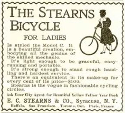 E. C. Stearns Bicycle - Advertisement - 1897